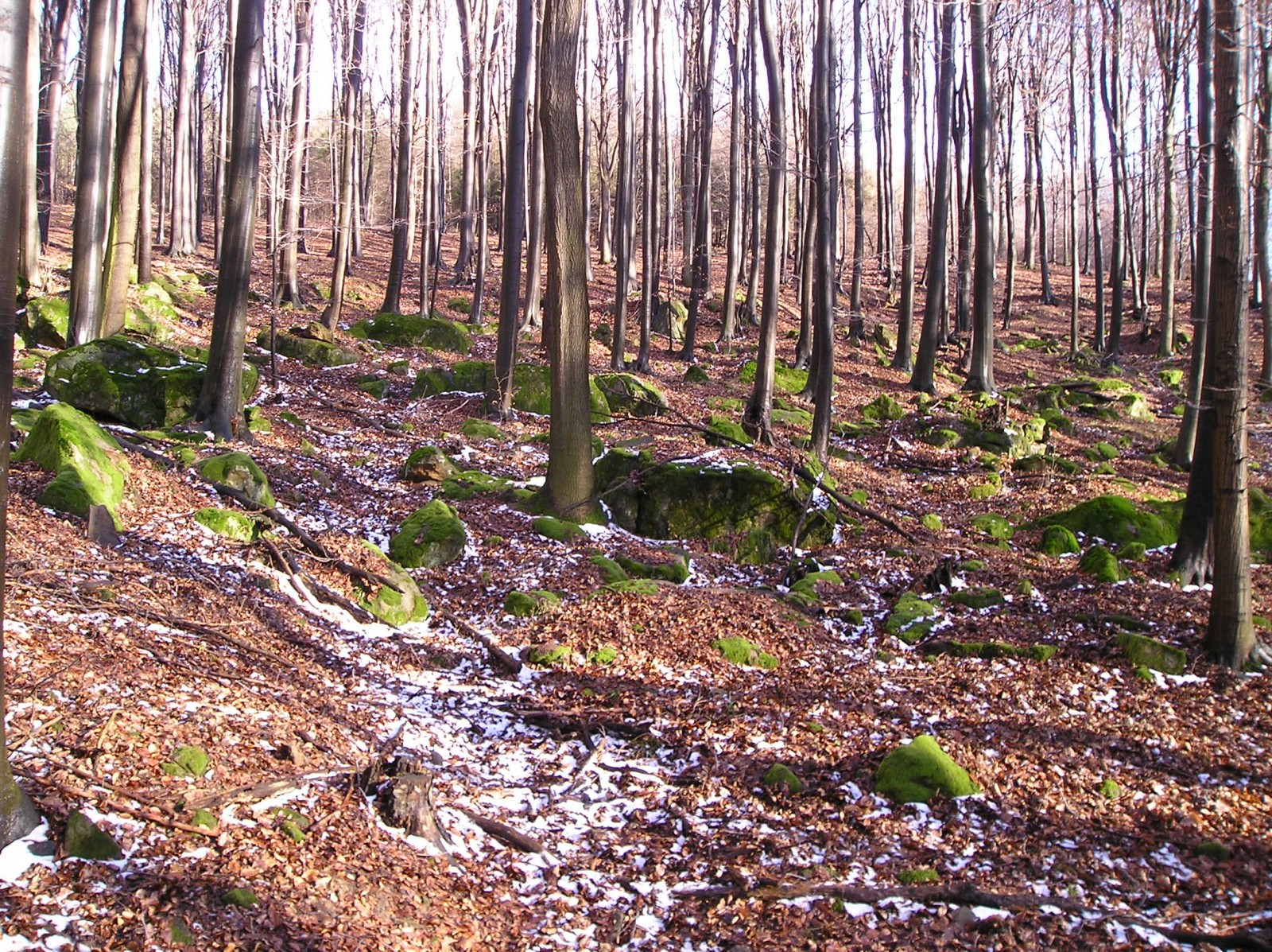 Nature sanctuary Nazareth